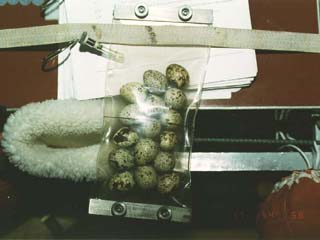 Quail eggs packaged for flight. Once they arrived on Mir, they were placed in an incubator to continue developing. Researchers performed postflight analyses on the embryos to determine the effects of microgravity on avian development, specifically development of the visuo-vestibular system, bone formation and mineralization, blood vessel formation, respiratory function and sexual development.